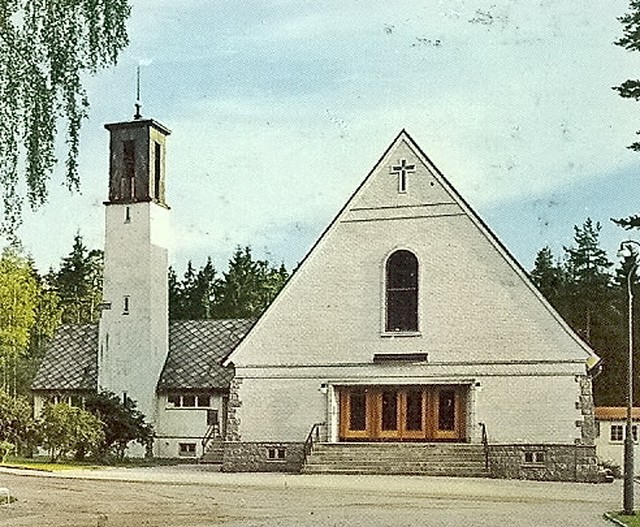 Askim chapel